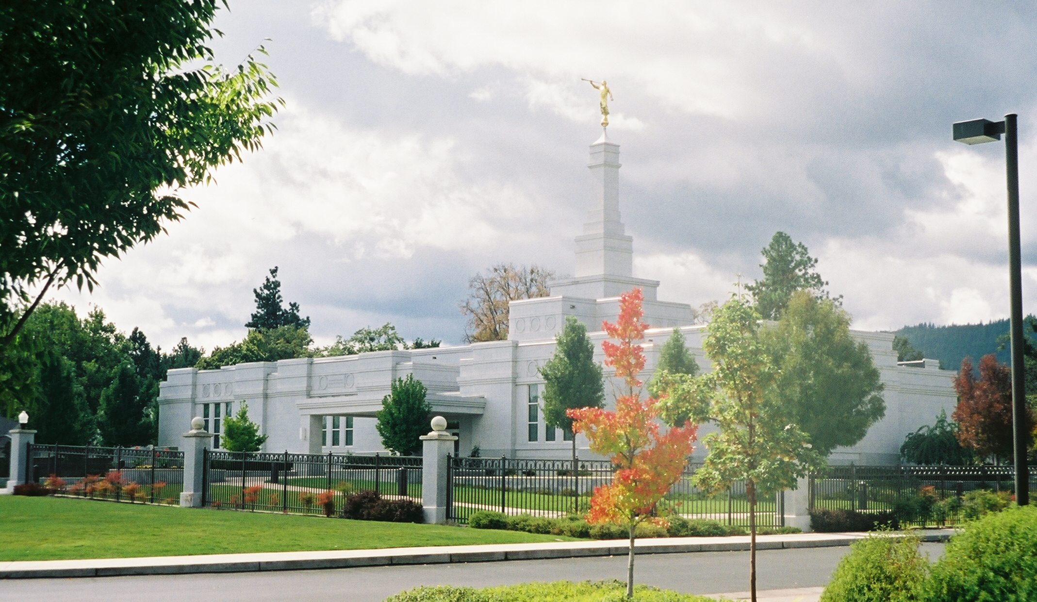 The Medford Oregon Temple of the Church of Jesus Christ of Latter-day Saints in Medford, Oregon.